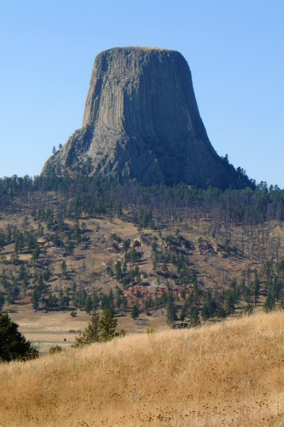 Devil's Tower, Wyoming. Taken by Andrew Yool on the 4th of September 2003.